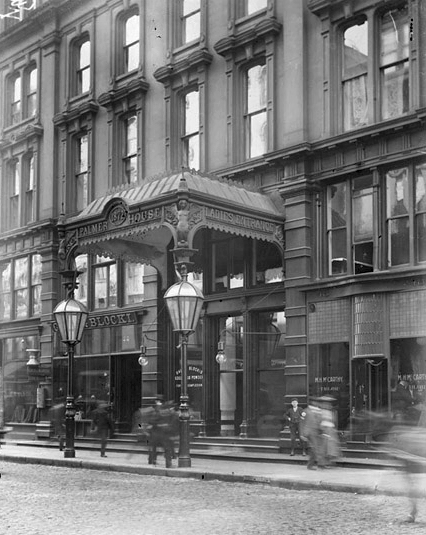 Exterior view showing the ladies entrance to the Palmer House Hotel at 150 South State Street in the Chicago Loop area, Chicago, Illinois, USA.